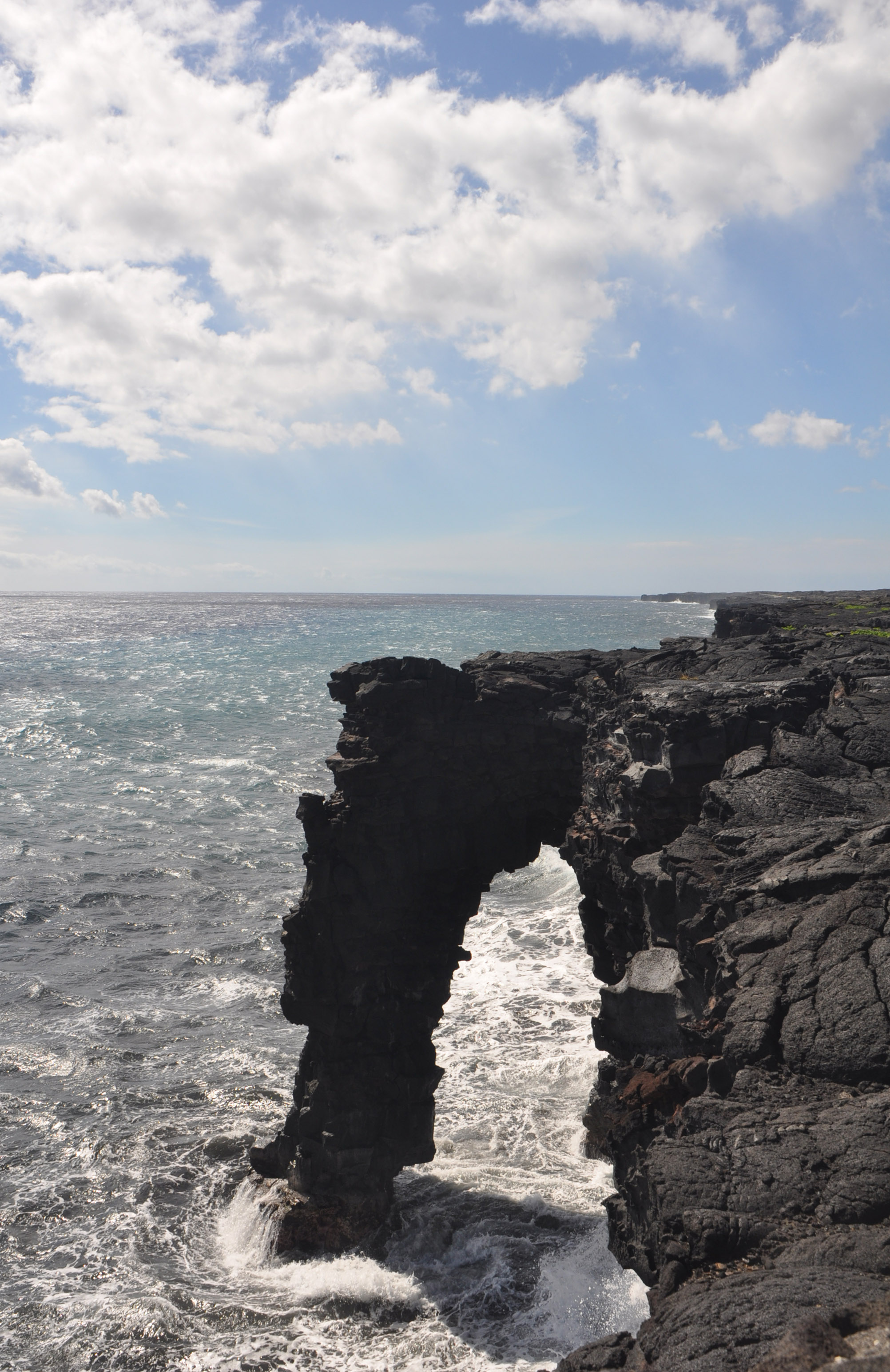 Holei Sea Arch at the end of Chain of Craters Road, Hawaii Volcanoes National Park, Hawaii, USA